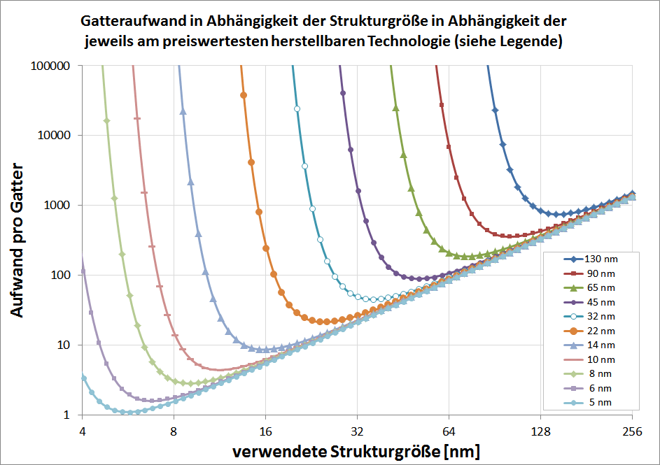 Symbolic diagram Costs per logical gatter deüending on the technology node used. The different curves show different development of technology with their local optimal structure size